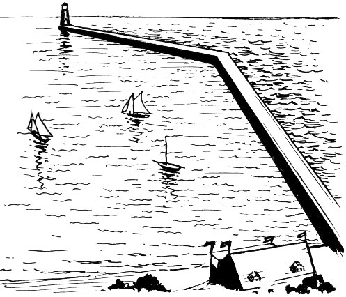 line art drawing